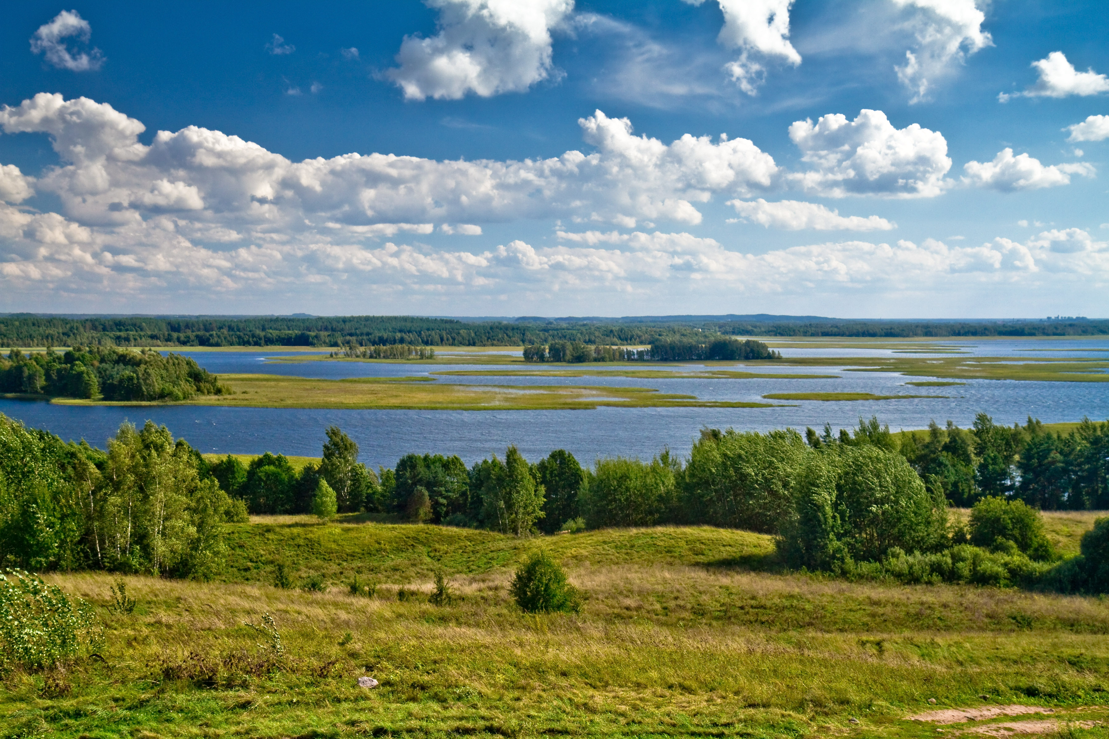 Strusta Lake. View from Majak hill. Brasłau district, Viciebsk province, Belarus.